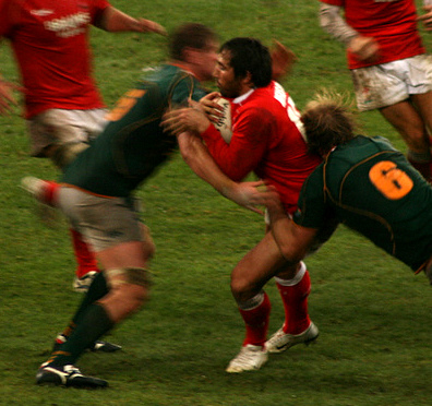 Rugby